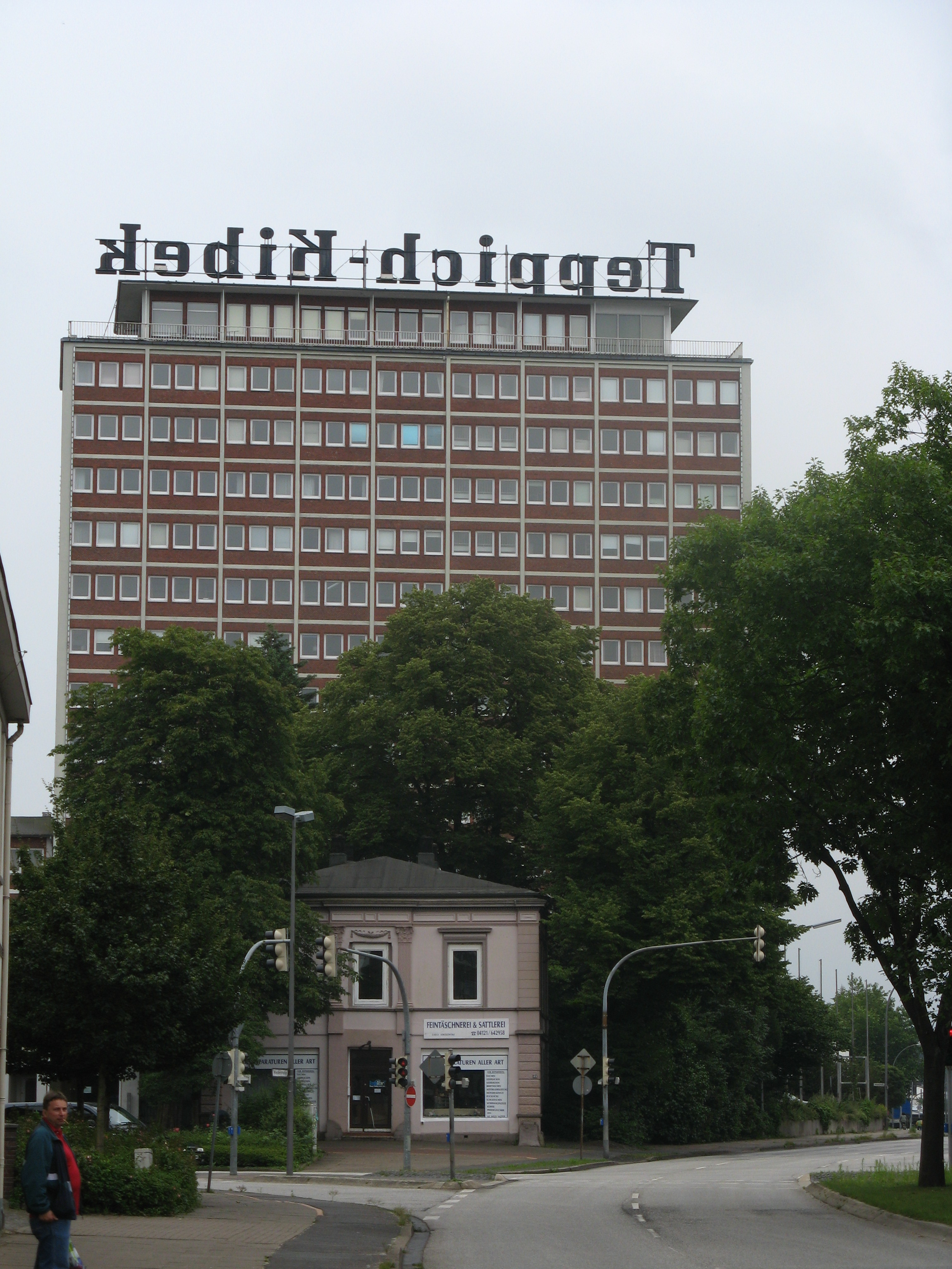 old teppich kibek building, elmshorn